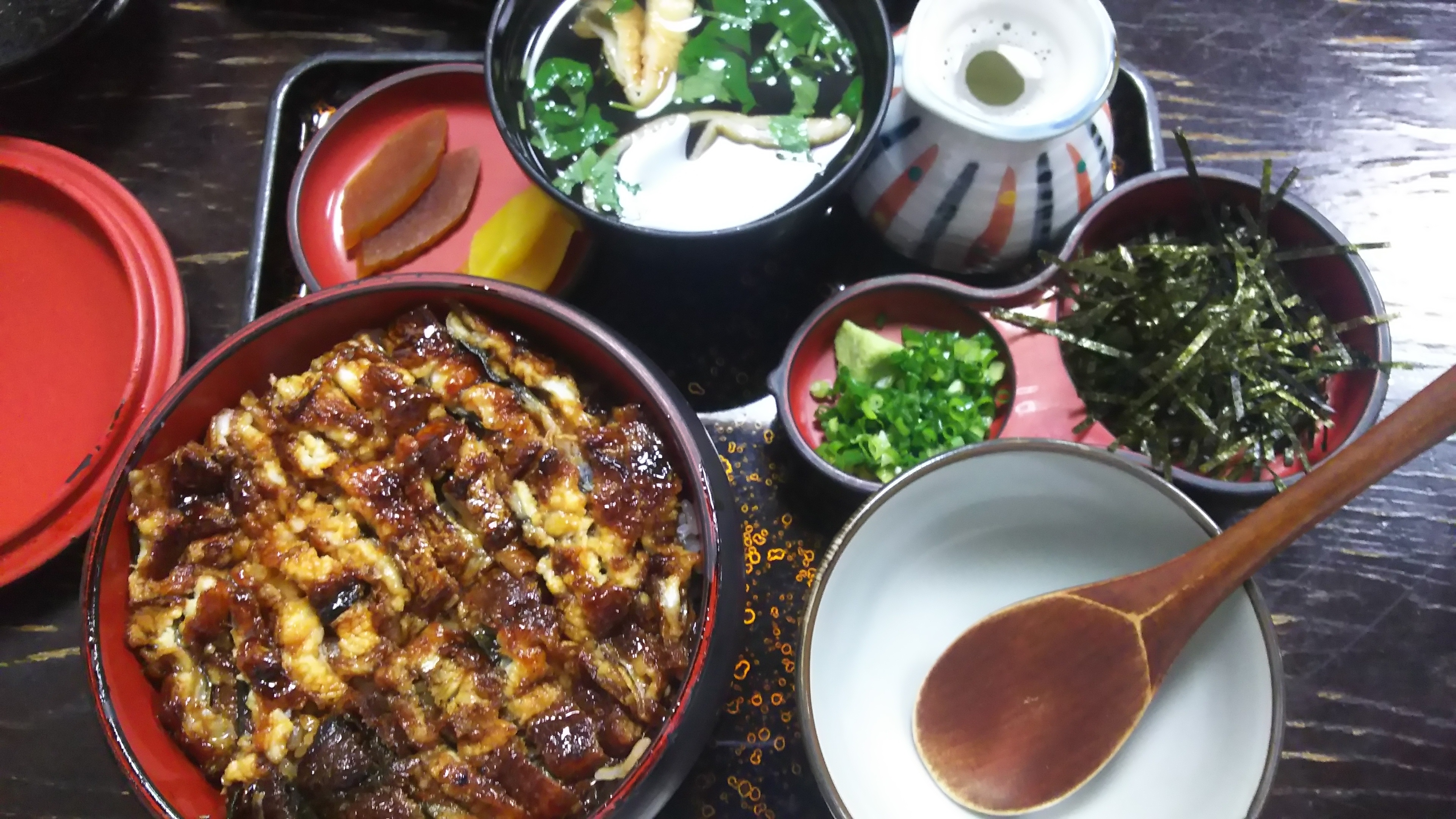 These are Hitsumabushi cooked by Daikantei Sakaemachi Honten, which is located in Tsu, Mie, Japan.